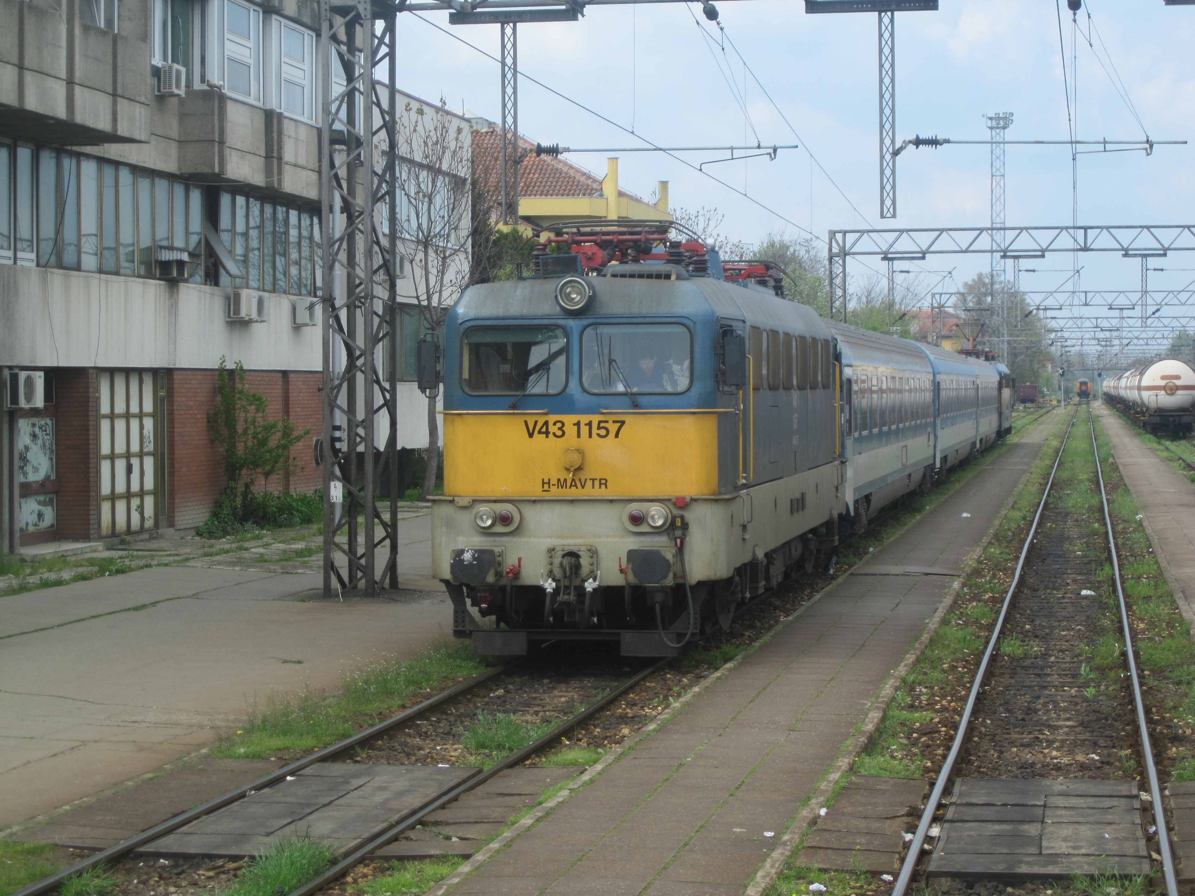 Photography at border stations is particular tricky especially during the loco change and passport formalities. This shot of a Hungarian V43 was taken through the end of the front coach during the loco change. The coaches seen with the V43 at the far end would be coupled up to lengthen up the train from Beograd to Budapest. V43 1157 would have brought the train in the opposite direction from Budapest with the three coaches being removed at Subotica. Oddly the train was viewed busier with local traffic in Serbia than once it got into Hungary!